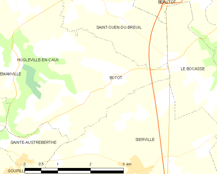 Map of French municipality Butot